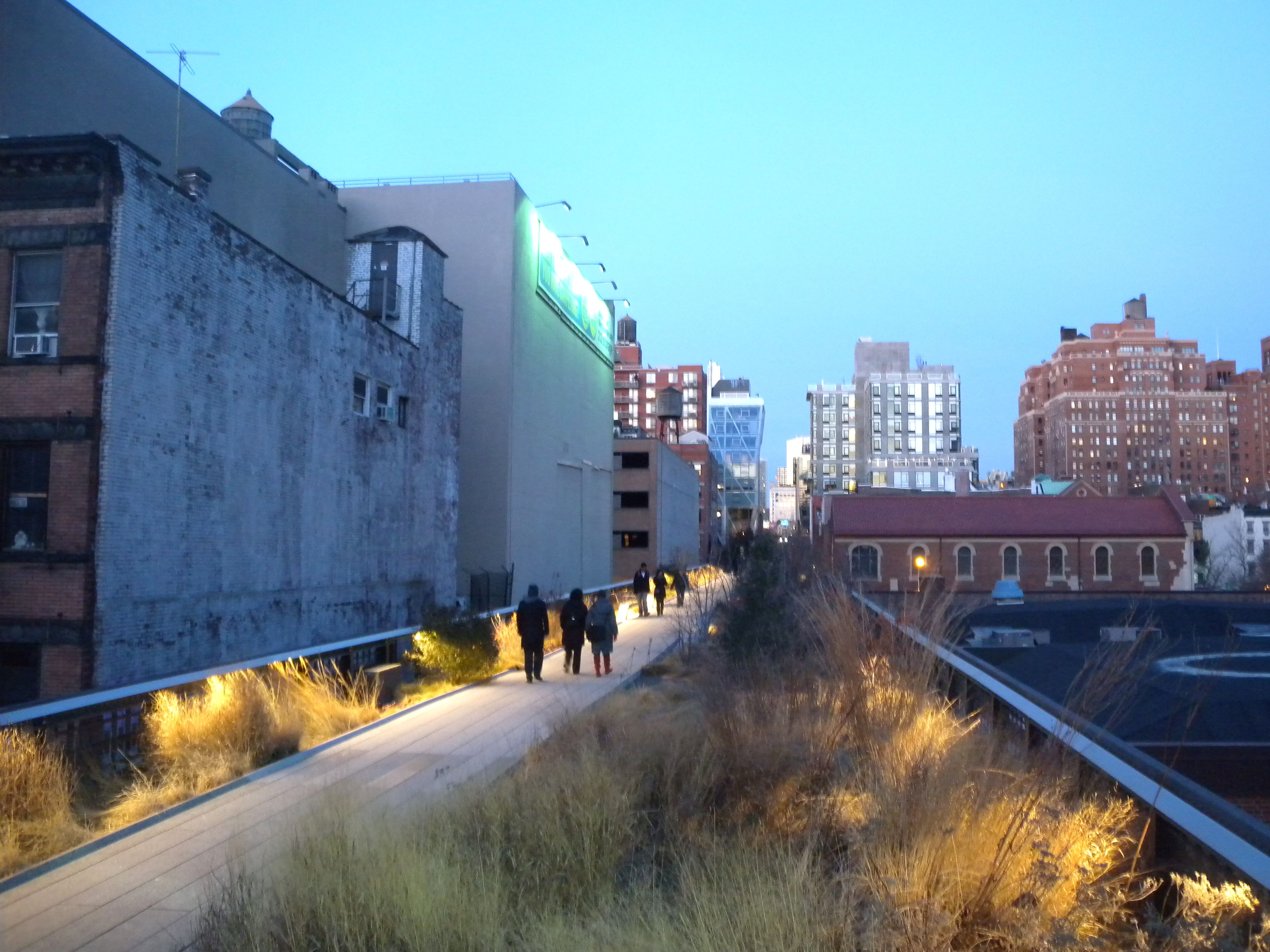 Looking north from 20th Street walkover as Sun sets.